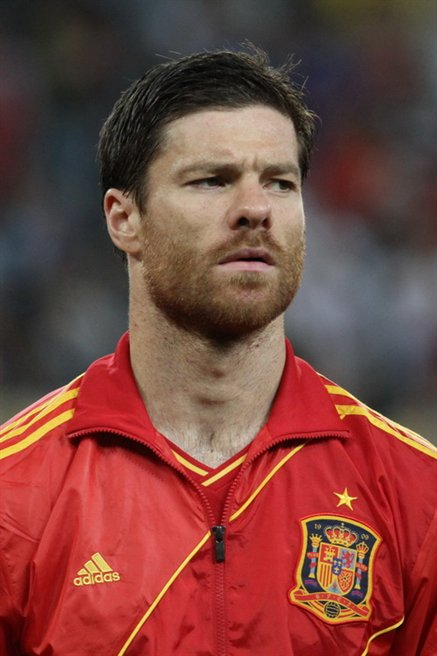 Xabi Alonso at Euro 2012 match Spain-France